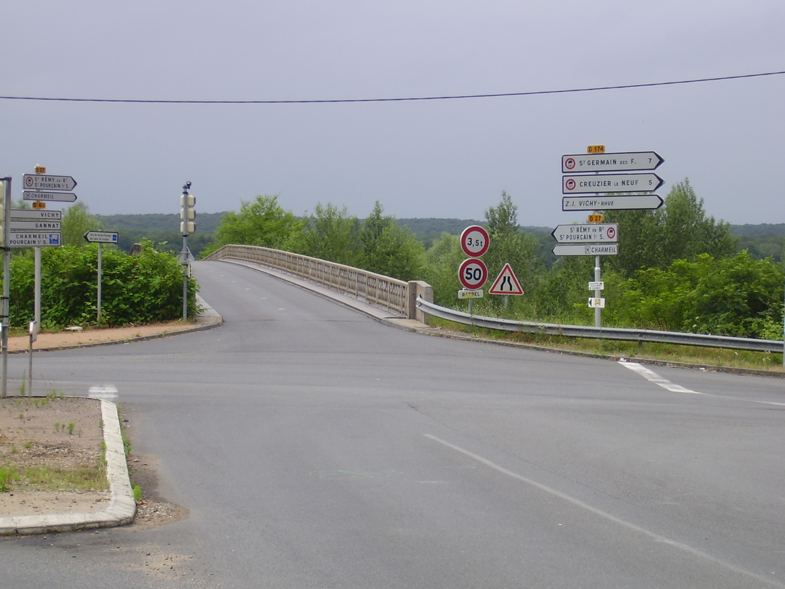 RD 27 in Creuzier-le-Vieux, Allier, Auvergne, France, near Boutiron bridge.